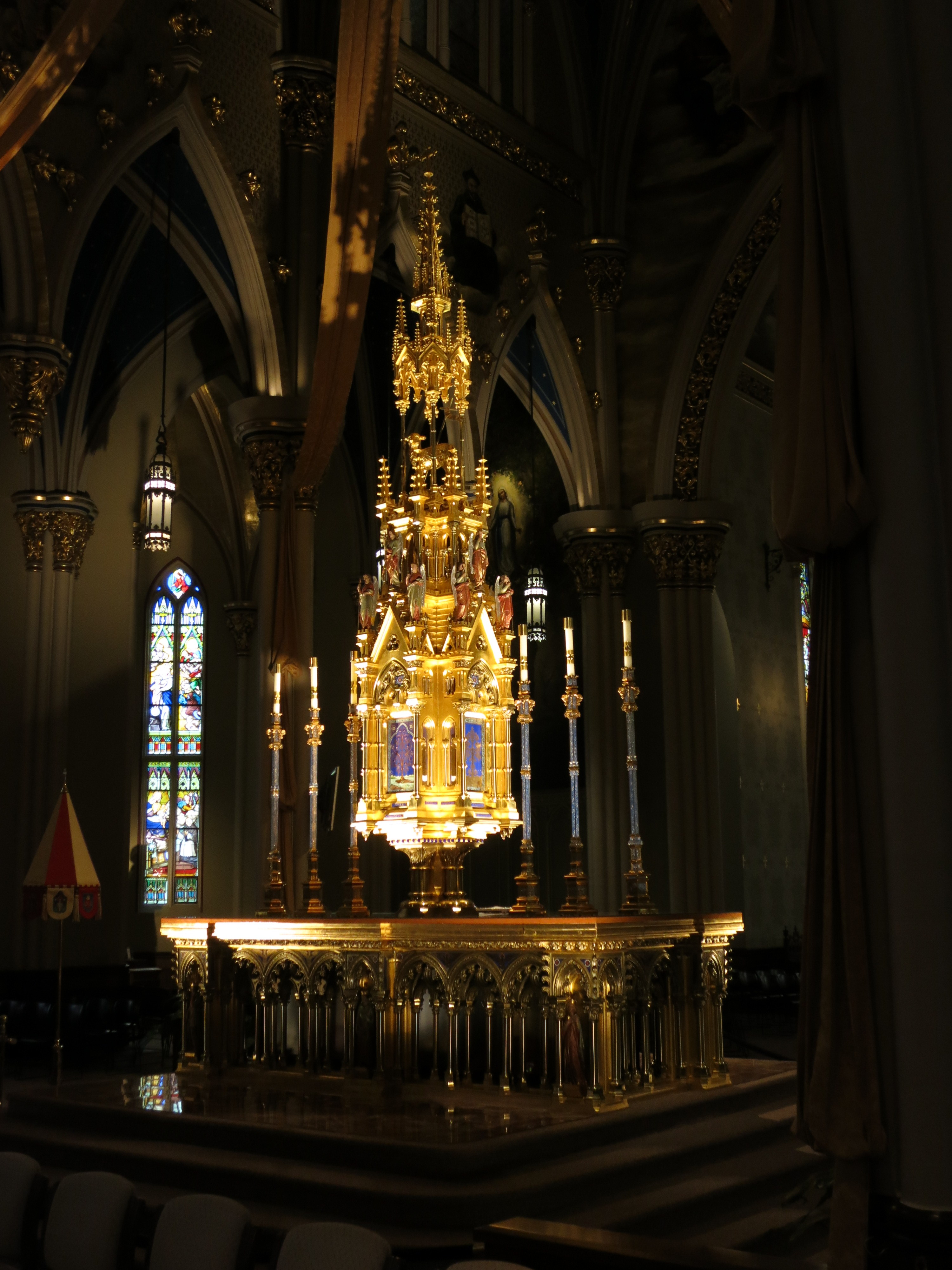 Basilica of the Sacred Heart (Notre Dame, Indiana) - interior, original altar (designed by Froc-Robert and Sons of Paris) with tabernacle tower